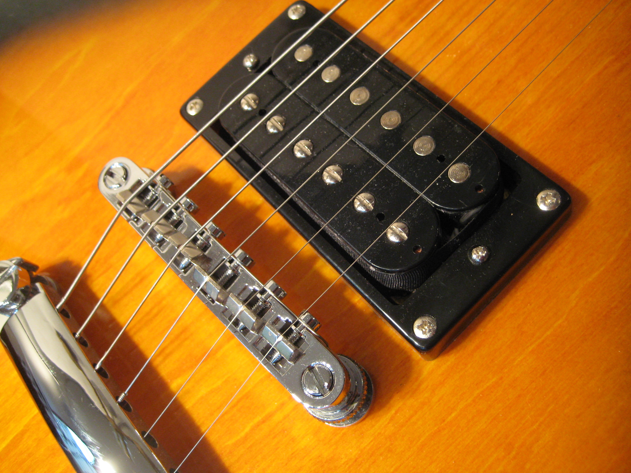 Guitar; Serial no. Epiphone Special II, SJ07060345, Epiphone, appears humbucker pick ups, chrome tone hardware, acrylic knobs, measures 13w x 1.5d x 39h, comes with soft gig bag Amp; Epiphone, measures 11w x 4.75d x 11.5, shallow for space constraints, a studio 10S, 19 watts, serial no. BC07073310, small kick stand at the back to tilt up All proceeds help us continue the fight against HIV/AIDS and homelessness